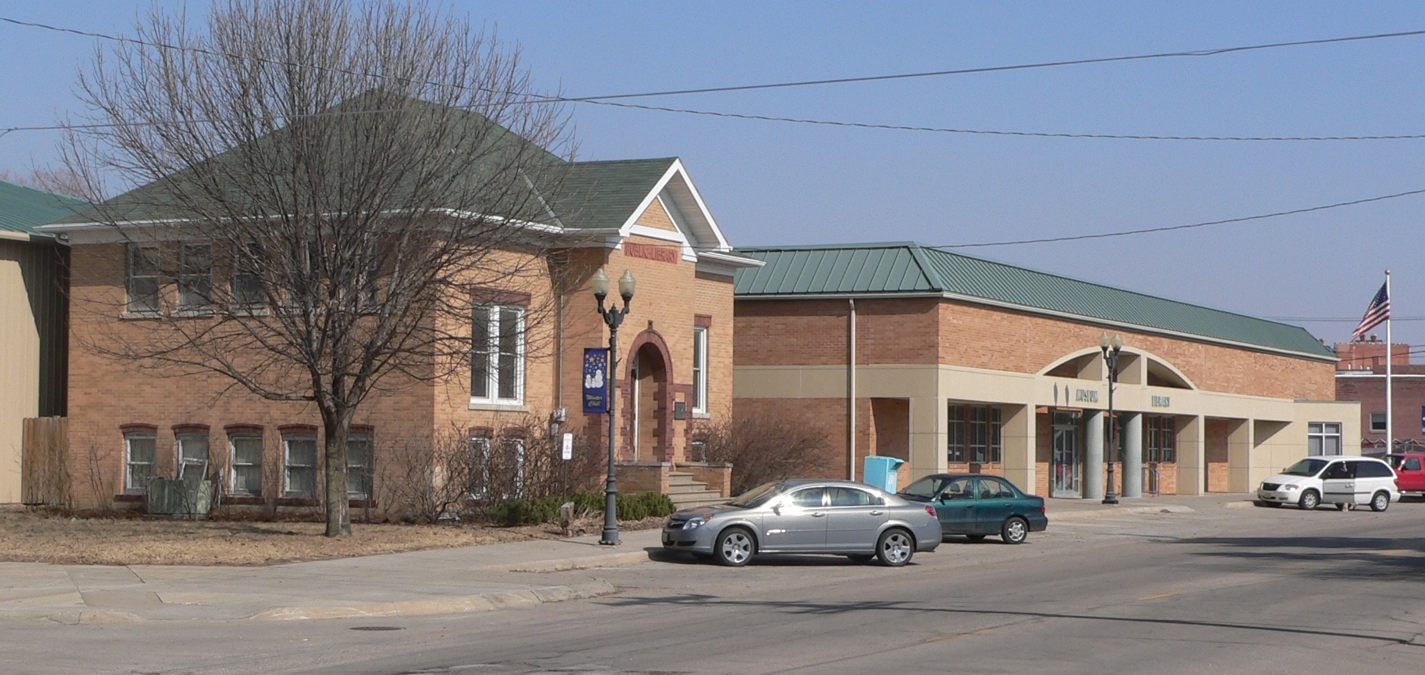 Madison, Nebraska Public Library, seen from the southwest along 3rd Street (Nebraska Highway 32). At left is the 1912 Carnegie library; at right is the more recent city hall building, where the library is currently located.